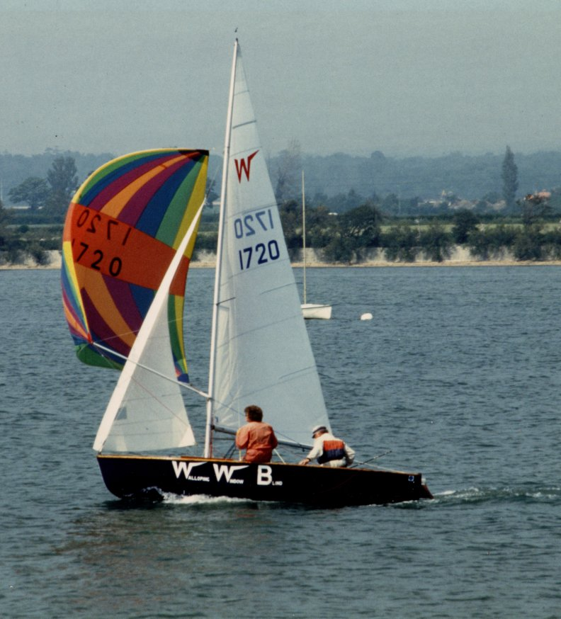 The Wayfarer dinghy Walloping Window Blind owned by Ted and Wendy Gadd. The boat competed in many UK national and international championships and her owners have sailed Wayfarers for around 30 years.